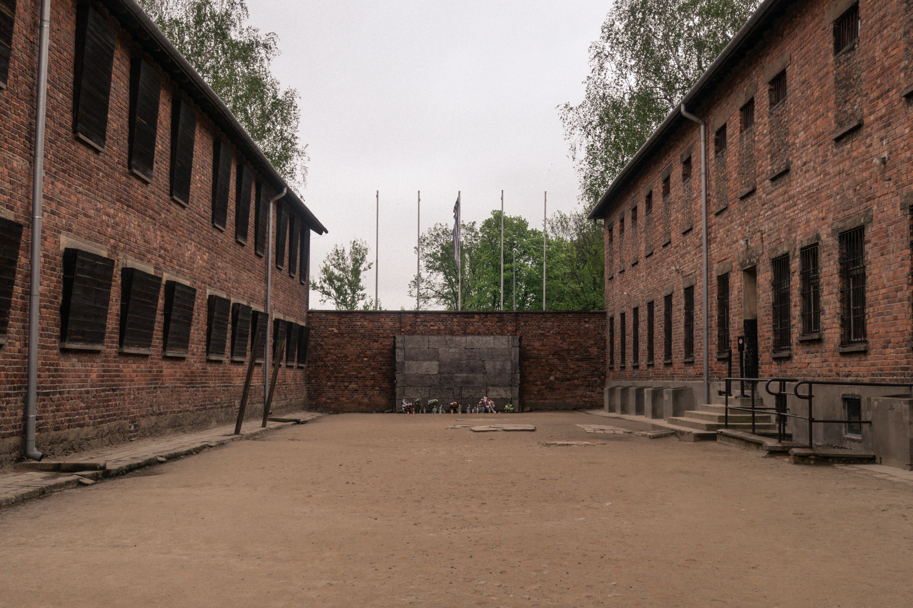 Wall of death